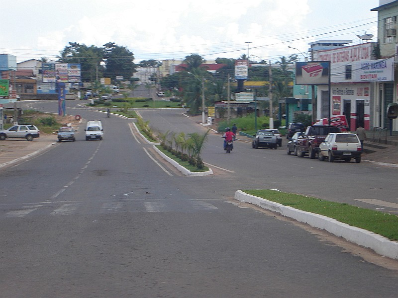 A street in downtown of Ji-Paraná, Rondônia State, Brazil.